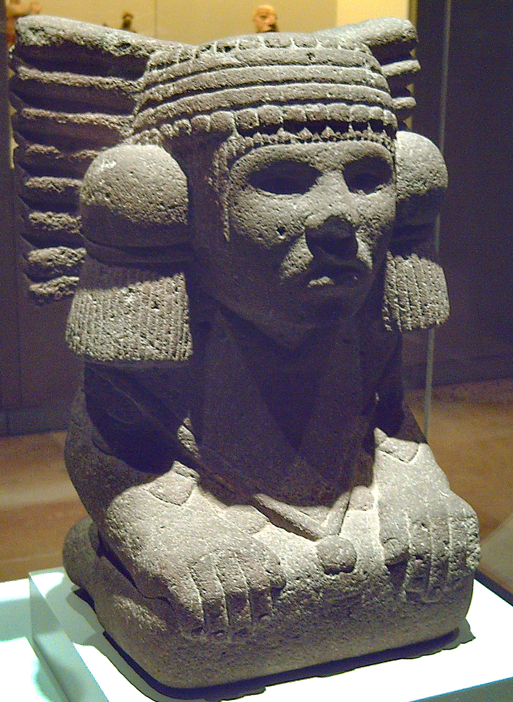 Stone sculpture representing godess Chalchiuhtlicue. Aztec-Culture artwork.